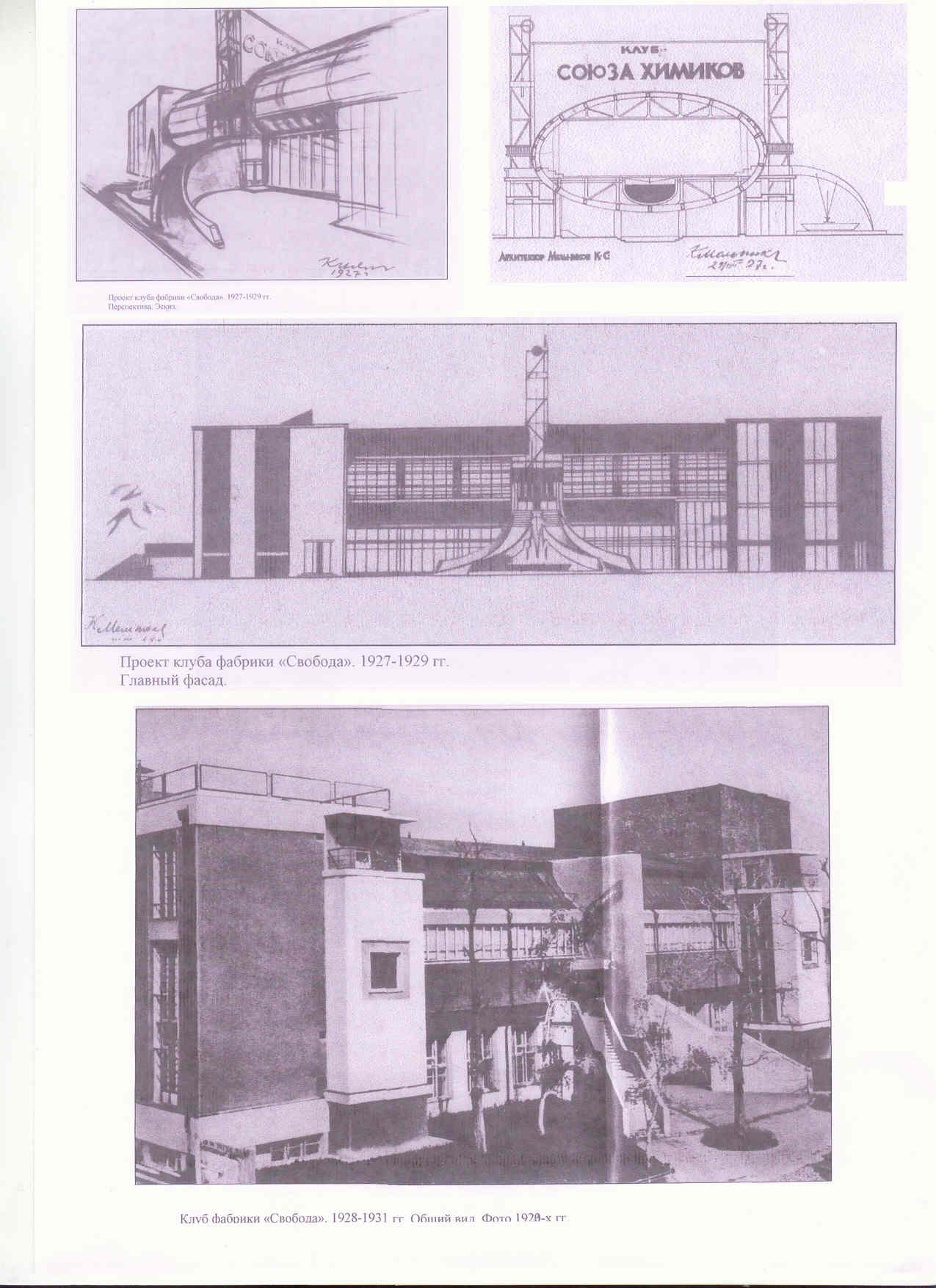 Проекты Мельникова и что по ним построили в 20-х г.г.